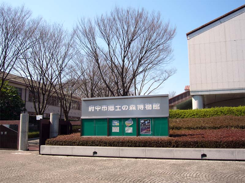 Kyodo no mori open air museum and park, Fuchu (Tokyo).